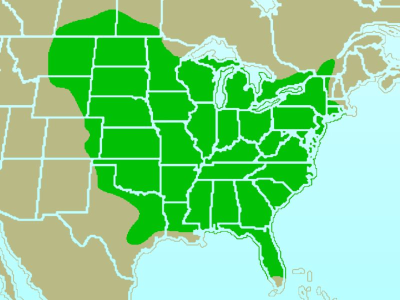 Approximate range/distribution map of the Red-bellied Woodpecker (Melanerpes carolinus). In keeping with WikiProject: Birds guidelines, yellow indicates the summer-only range, blue indicates the winter-only range, and green indicates the year-round range of the species.